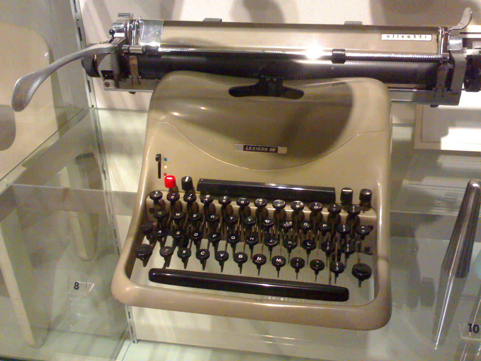 Olivetti Lexikon 80 type II typewriter